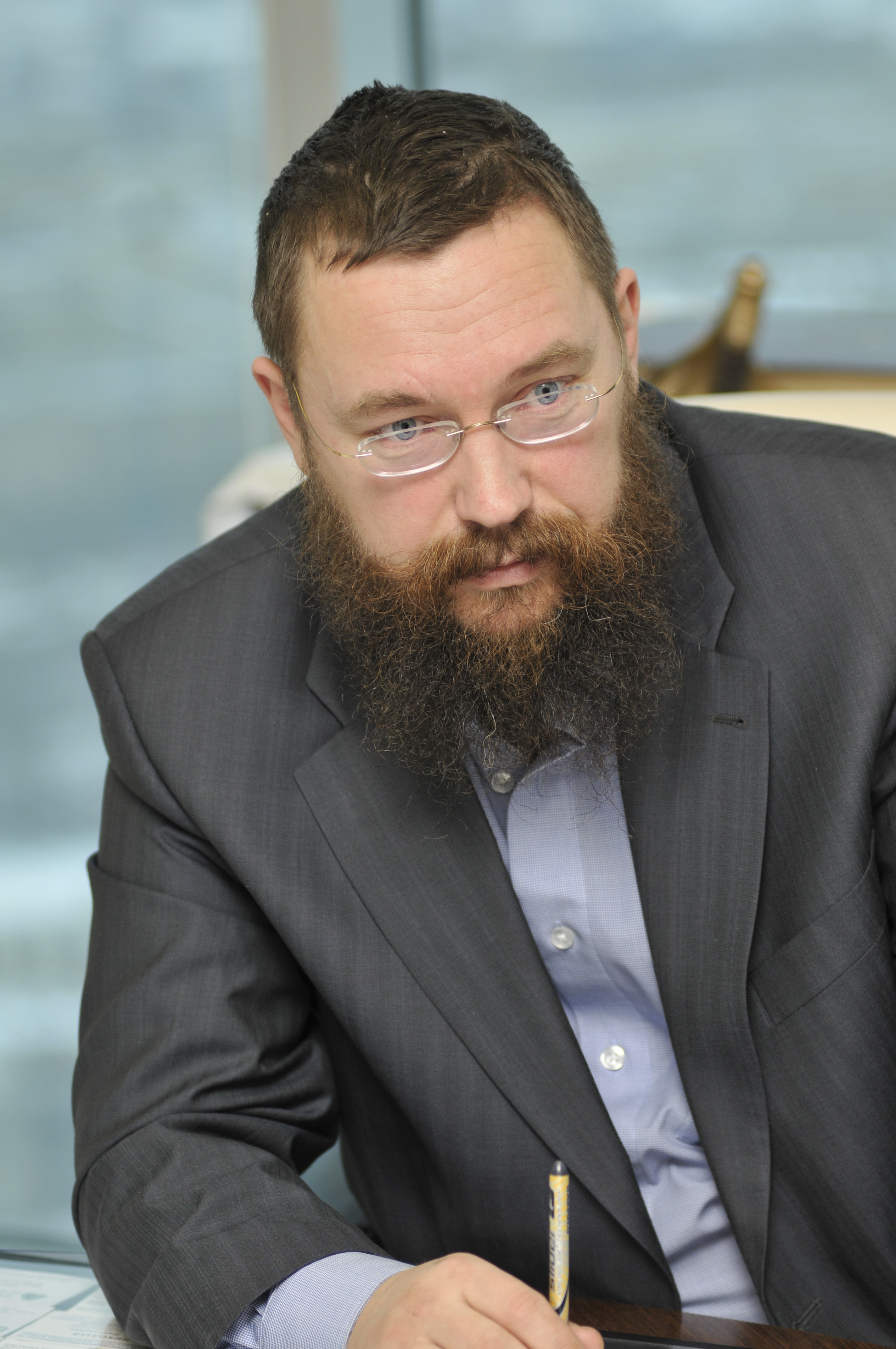 Herman L. Sterligov, Russian undertaker and political and social activist, entrepreneur, manager, and one of Russia's first multimillionaires. He is a Russian monarchist.